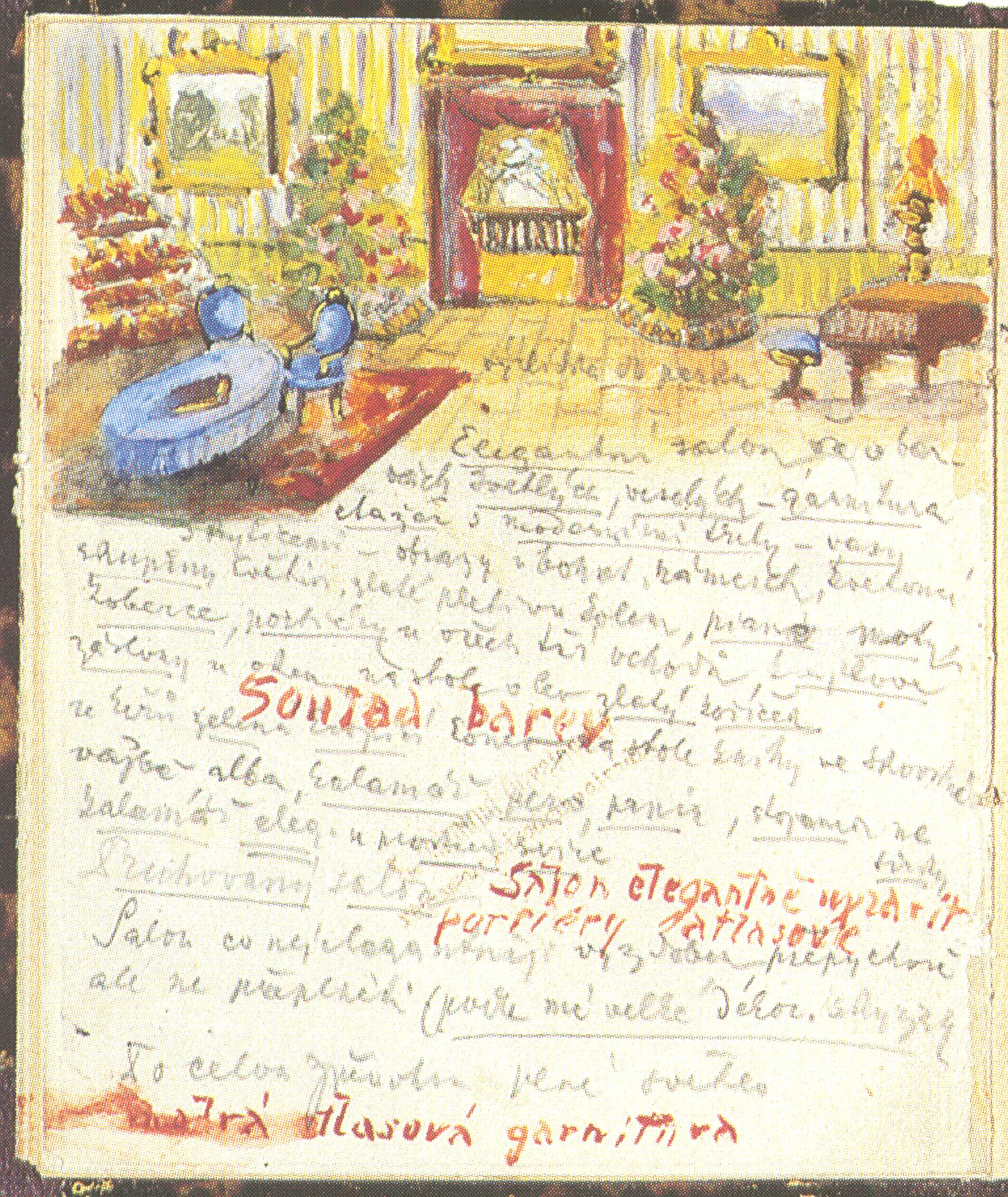 Director Edmund Chvalovský's stage design and comments to the first act of Bedřich Smetana's The Two Widows, 1874.